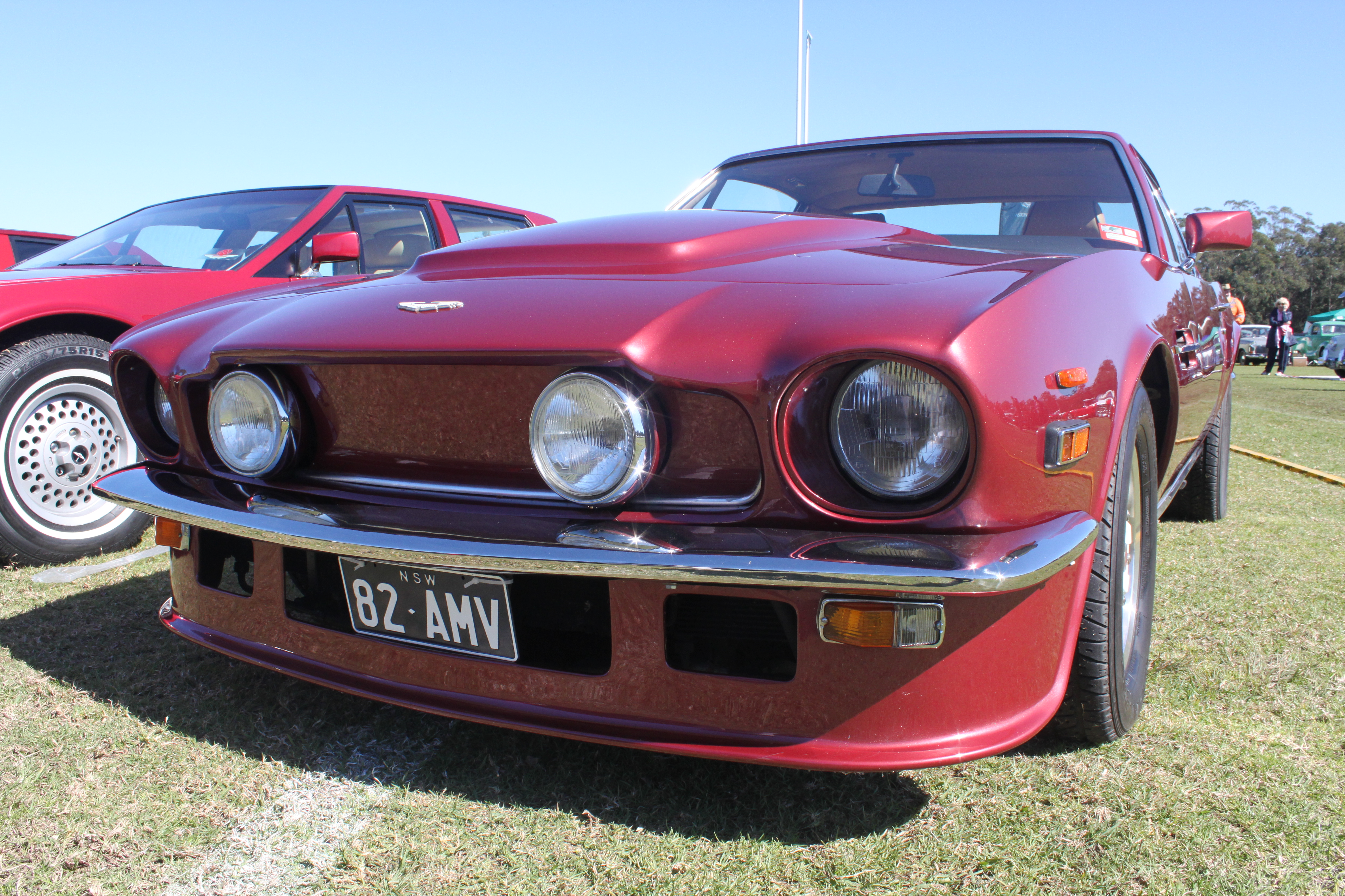 All British Day, Kings School, North Parramatta, NSW August 2015